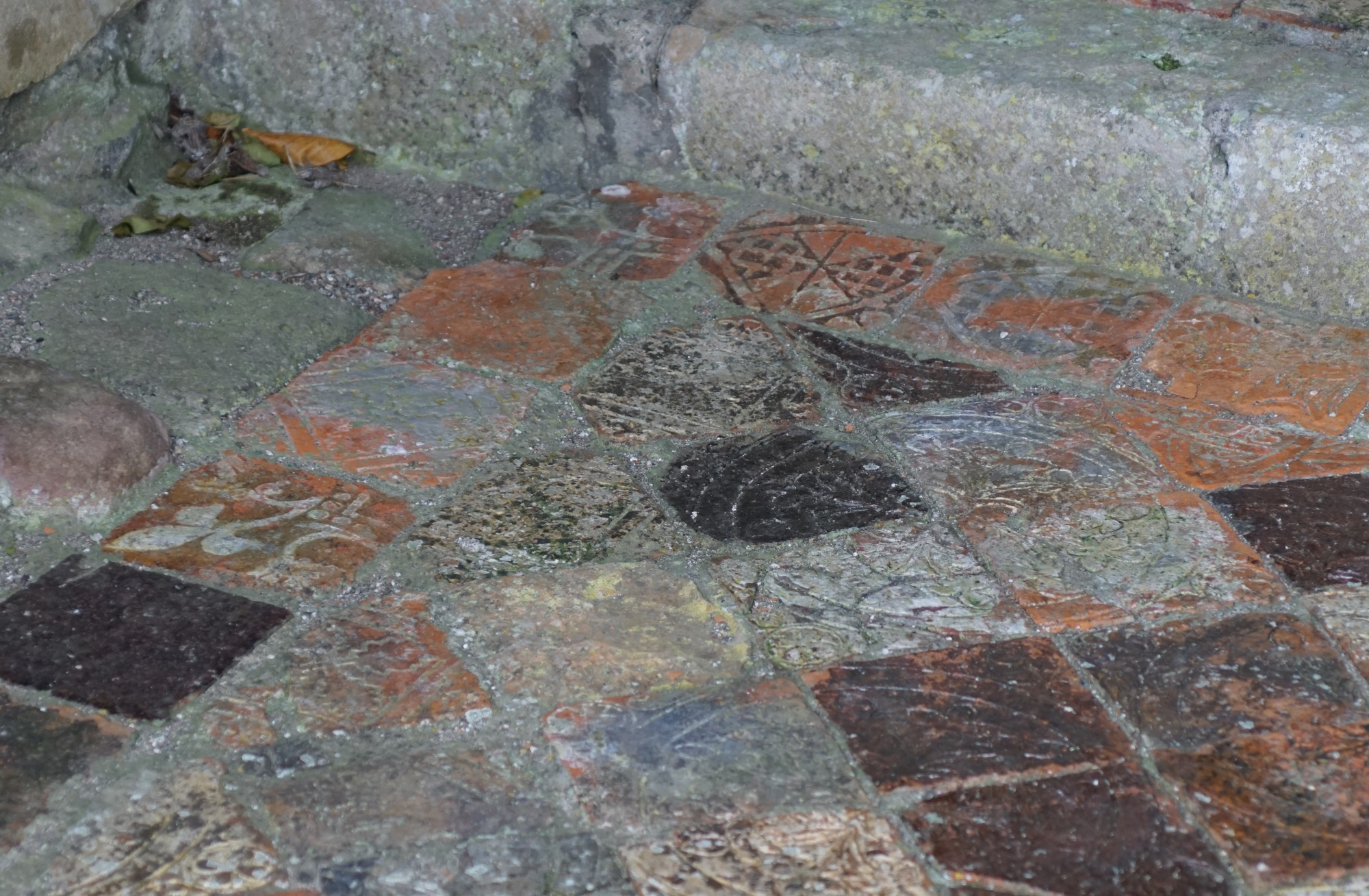 Strata Florida Abbey, Wales. Decorated tiles in one of the chapels in the southern transept.